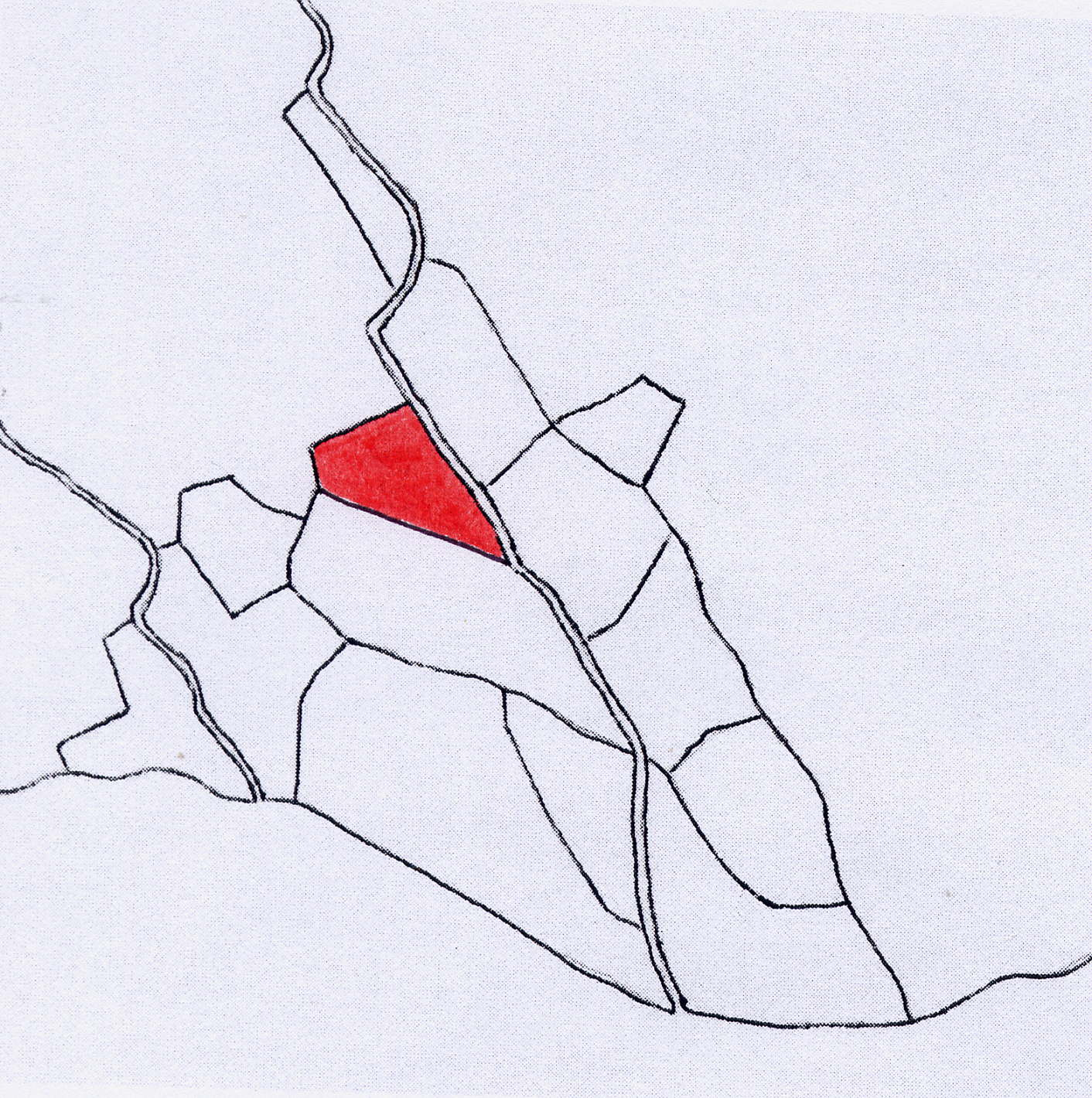 Pasechnaya microdictrict in Tsentralny City district of Sochi